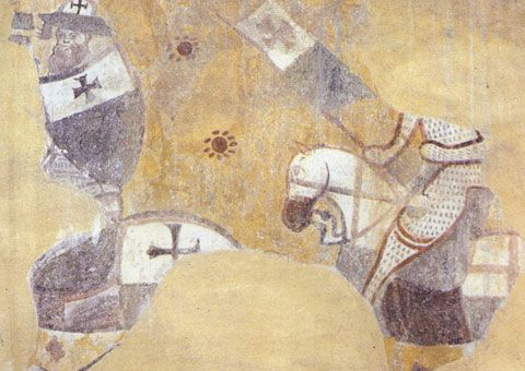 Central portion of the "battle fresco" in San Bevignate, Perugia. Situated on the counter-facade, opposite the altar, running across the wall below the rose window. The fresco survives only in fragments. It shows a battle between Templars and Saracens, tentatively identified as the sack of Nablus of 1242. This central portion of the fresco shows two mounted Kinghts Templar. The upper body and bearded face of the left one has been preserved, showing him armed with a heater shield, with the Templar emblem both on his helmet and his shield. Behind him follows another mounted Templar wielding the Baucent war flag. The left portion of the fresco shows a third Christian knight, armed with a dagger and a round shield, engaging one of three mounted Saracen defenders of a city. The fresco originally stretched across the full width of the wall, but only three minor fragments of its right half have been preserved. Other photographs of the fresco online: here and here, plus a 360-view of the chapel interior by Giulio Fratticioli Literature: Malcolm Barber, The New Knighthood: A History of the Order of the Temple, Cambridge University Press (2012), p. 206. See also